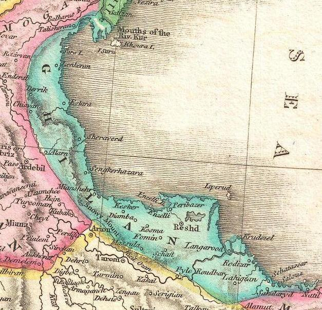 A rare and important 1818 map of Persia by John Pinkerton. Depicts from the Black Sea eastward as far as the Indus Valley, extends north to the Aral Sea and South to the Persian Gulf and the Arabian Sea. Includes the modern day countries of Iran and Afghanistan, as well as parts of adjacent Pakistan, Kuwait, Iraq, Turkey and Arabia. Notes both political and physical geographic elements, including rivers, mountains, under sea dangers, various tribal regions, cities, ruins, and canals. In particular, notes the ruins of both Babylon and Persepolis. Drawn by L. Herbert and engraved by Samuel Neele under the direction of John Pinkerton. The map comes from the scarce American edition of Pinkerton’s Modern Atlas, published by Thomas Dobson & Co. of Philadelphia in 1818.